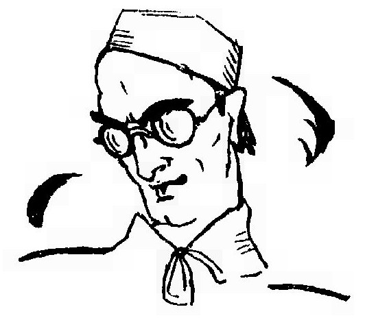 Illustration of the French novel "L'Homme truqué".